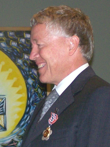 Richard Bedford, after his investiture as a Companion of the Queen's Service Order, for services to geography, at Government House, Auckland, on 17 April 2008.